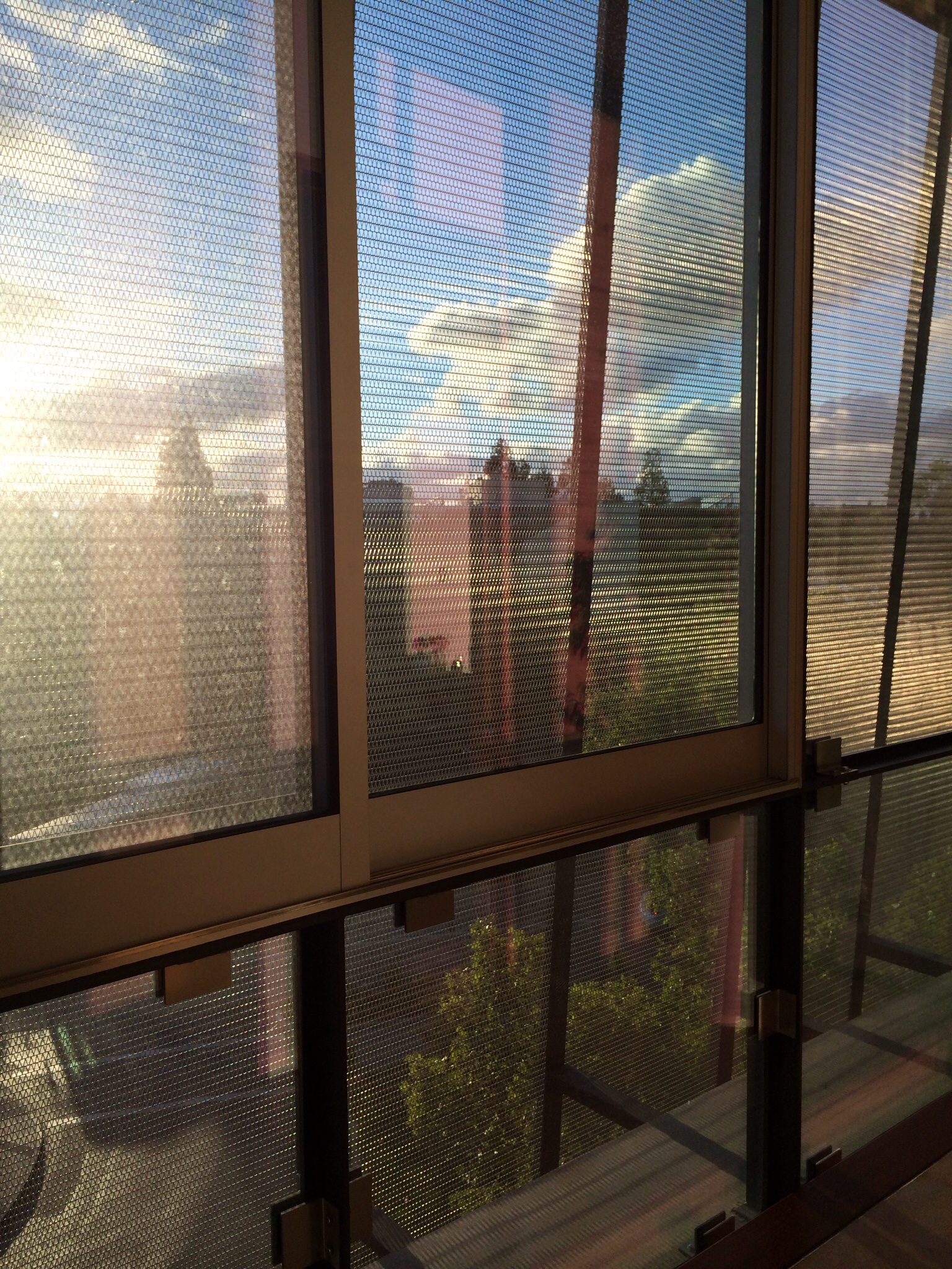 102 University Ave. - Palo Alto, CA Designed by Joseph Bellomo Architects